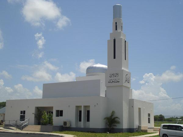 The Ahmadiyya Mosque{ Masjid Mahdi },Old Harbour Jamaica